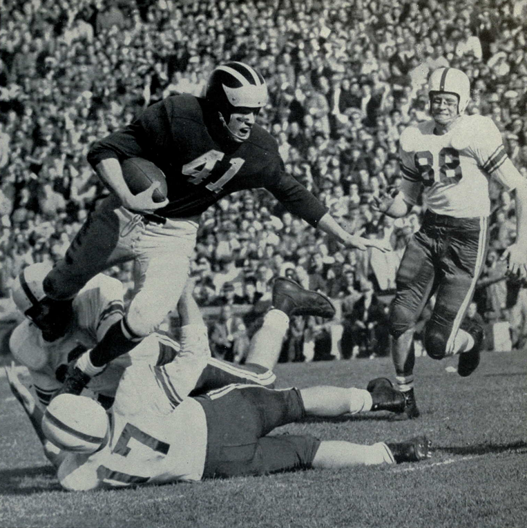 Photograph of Terry Barr running with the ball in 1955 Michigan-Indiana game This work is in the public domain because it was published in the United States between 1923 and 1963 and although there may or may not have been a copyright notice, the copyright was not renewed. Unless its author has been dead for the required period, it is copyrighted in the countries or areas that do not apply the rule of the shorter term for US works, such as Canada (50 pma), Mainland China (50 pma, not Hong Kong or Macao), Germany (70 pma), Mexico (100 pma), Switzerland (70 pma), and other countries with individual treaties. See Commons:Hirtle chart for further explanation. This work is in the public domain in the United States because it was published in the United States between 1923 and 1977 without a copyright notice. See Commons:Hirtle chart for further explanation. Note that it may still be copyrighted in jurisdictions that do not apply the rule of the shorter term for US works (depending on the date of the author's death), such as Canada (50 p.m.a.), Mainland China (50 p.m.a., not Hong Kong or Macao), Germany (70 p.m.a.), Mexico (100 p.m.a.), Switzerland (70 p.m.a.), and other countries with individual treaties.